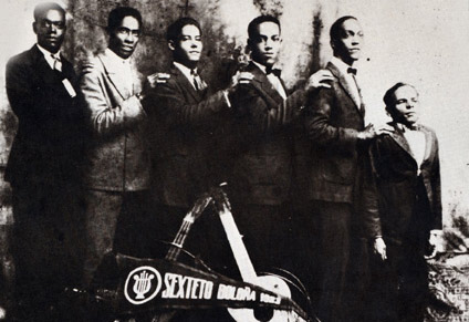 photo of Sexteto Boloña, cropped to remove irrelevant material